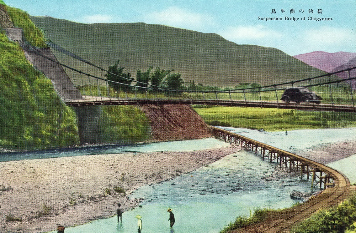 Postcard of Suspension Bridge of Ugyûlan (烏牛欄 or うぎゅうらん, miswritten as 鳥牛欄 Chōgyulan, now Ailan Bridge in Puli, Nantou County, Taiwan) in Japanese ruled era of Taiwan Bân-lâm-gú: Tâi-oân Ji̍t-pún sî-tāi ê Po͘-lí O͘-gû-lân Tiàu-kiô (烏牛欄吊橋, taⁿ ê Ài-lân-kiô (愛蘭橋)) ê bêng-sìn-phiàn (明信片) 中文（台灣）: 台灣日本時代埔里烏牛欄吊橋（今愛蘭橋）的明信片